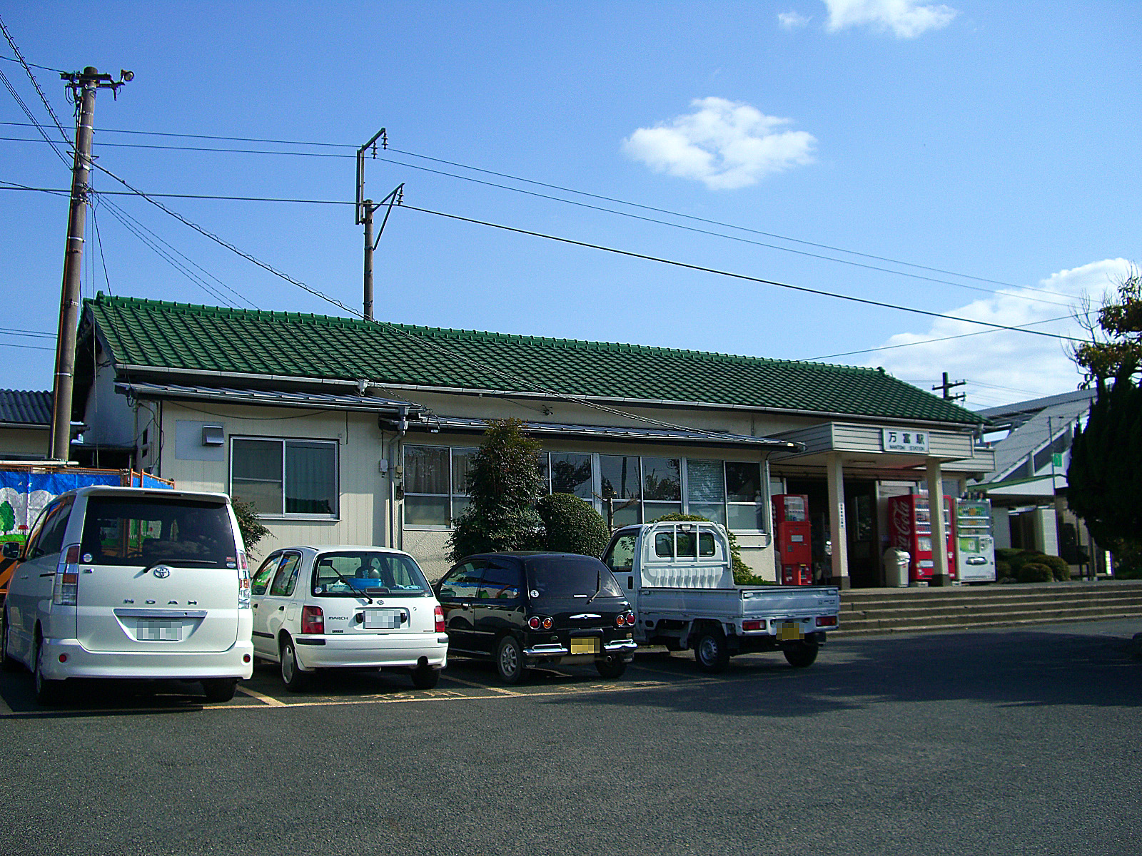 West Japan Railway Sanyō Main Line Mantomi Station Building